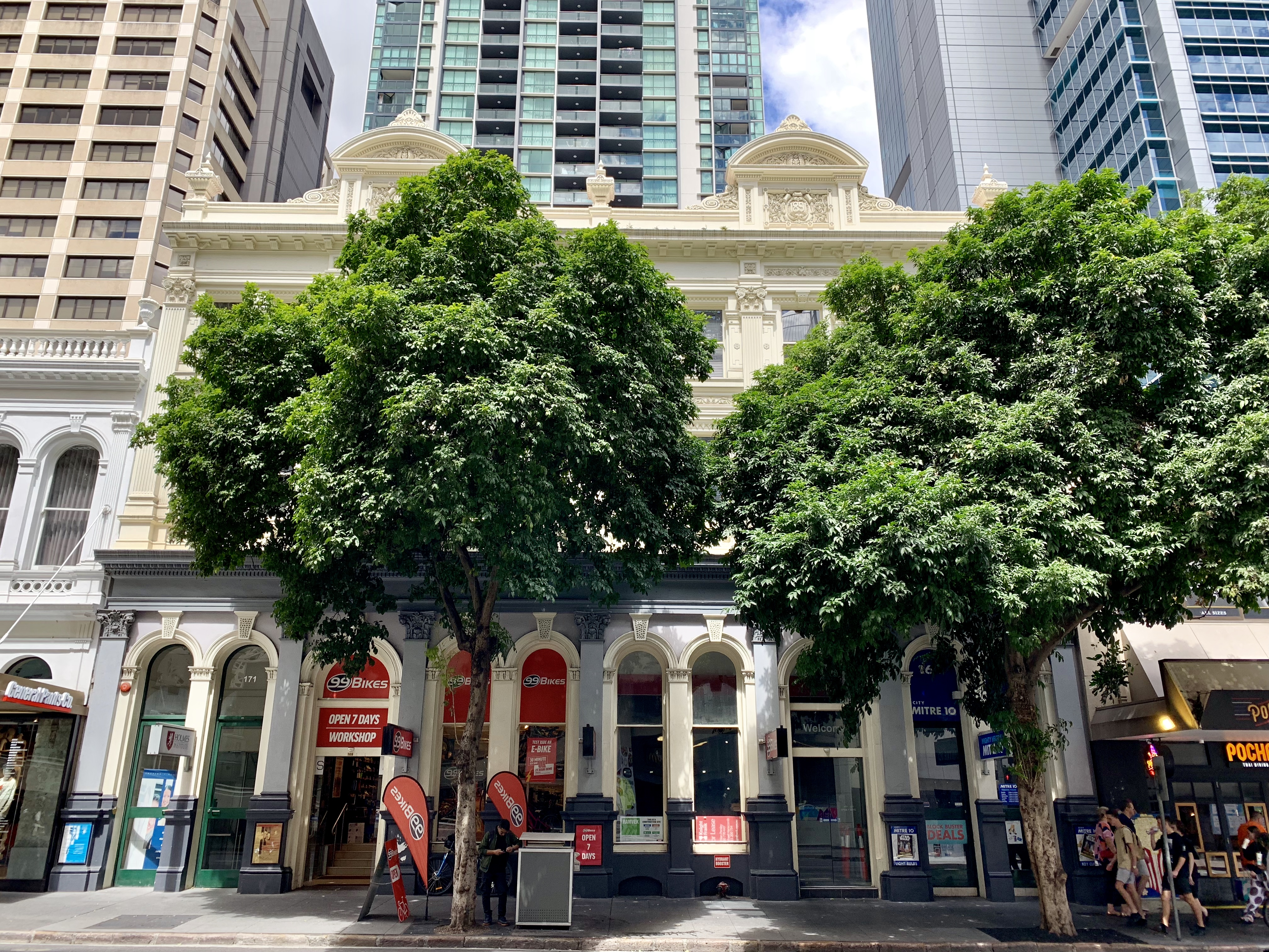 Heckelmanns Building at 171 Elizabeth Street, Brisbane